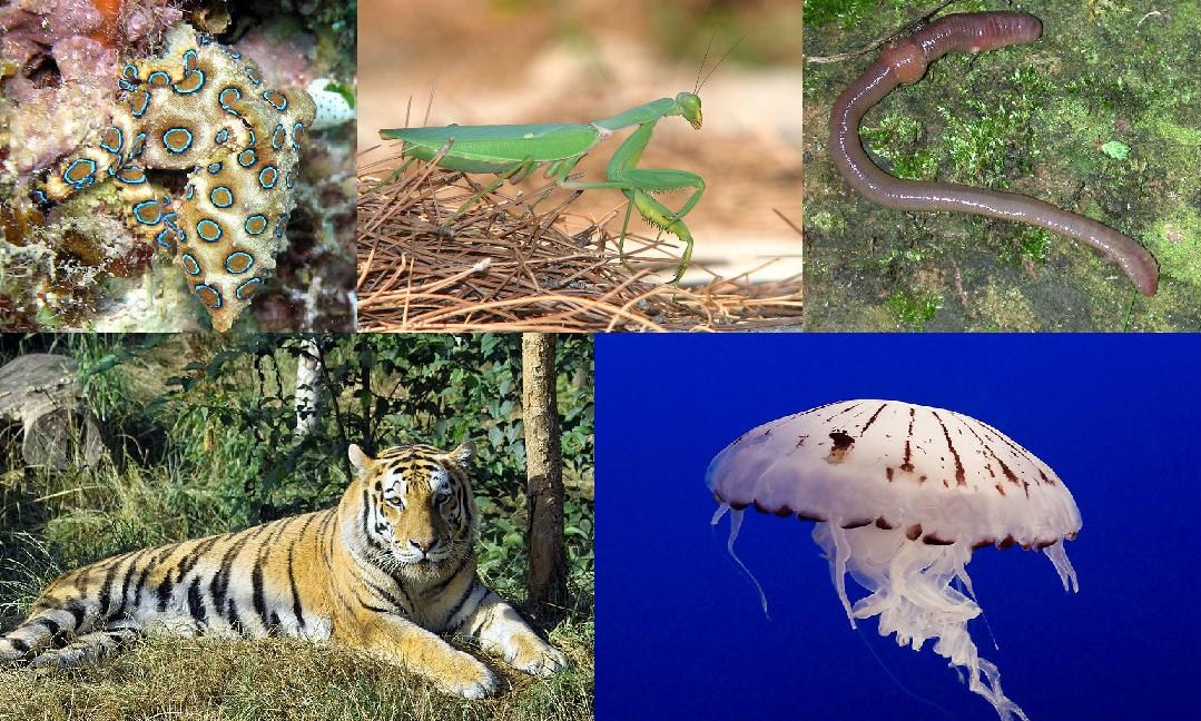 Animalia (animals), based on: File:Hapalochlaena lunulata2.JPG File:Panthera tigris altaica - Pries.jpg File:Mantis-greece-alonisos-0a.jpg File:Regenwurm1.jpg File:Chrysaora Colorata.jpg